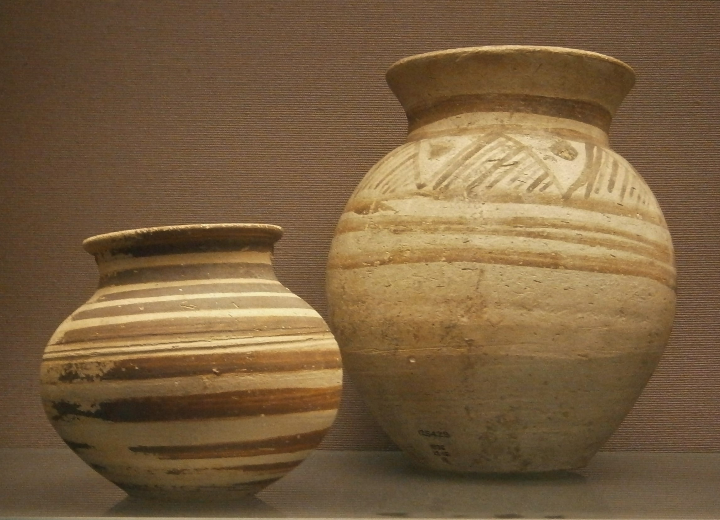 Two Khabur ware jars, first half of 2d millennium BC. From Chagar Bazar. ME 125455 et 125429.